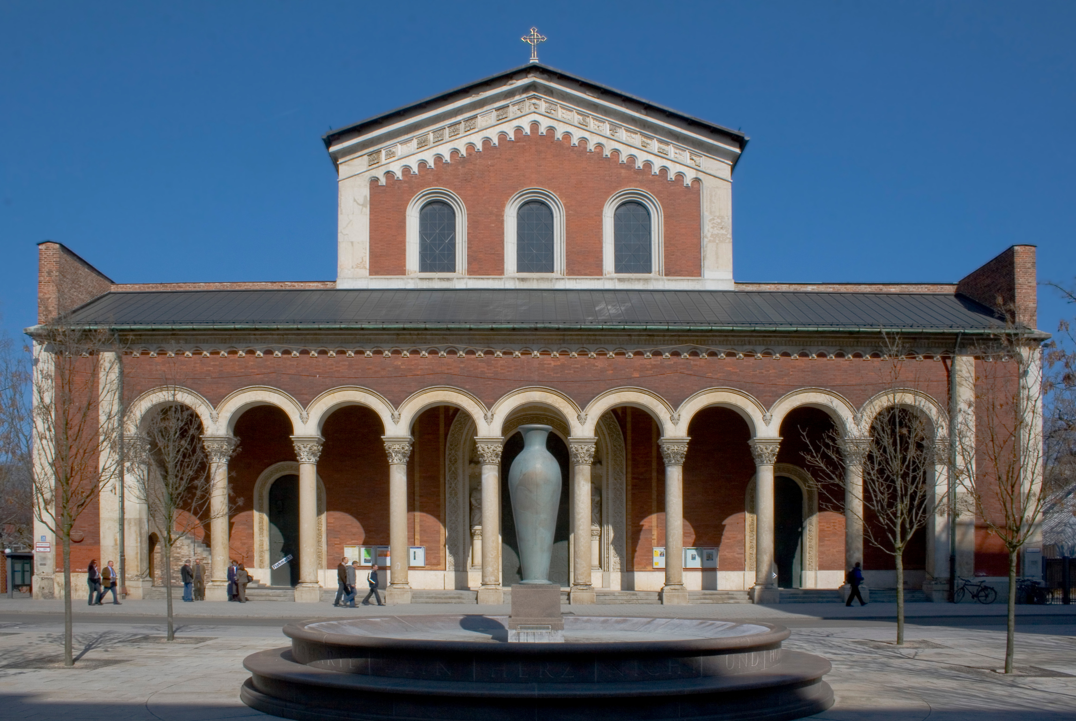 St. Boniface's Abbey, Munich, Germany